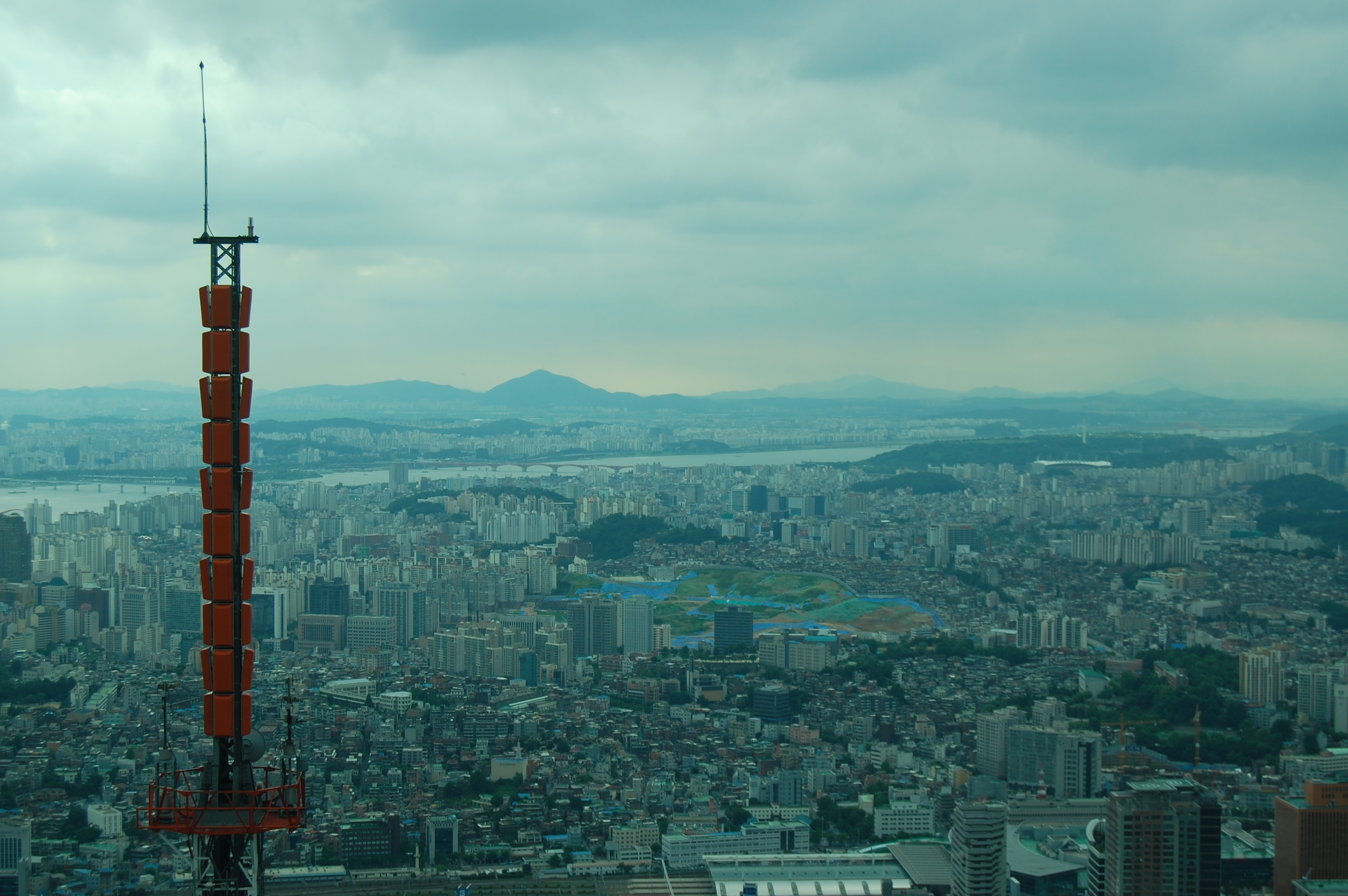 Seoul as seen from N Seoul Tower.